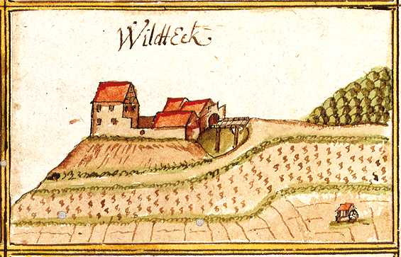 View of Wildeck, Abstatt, from the forest register books created by Andreas Kieser